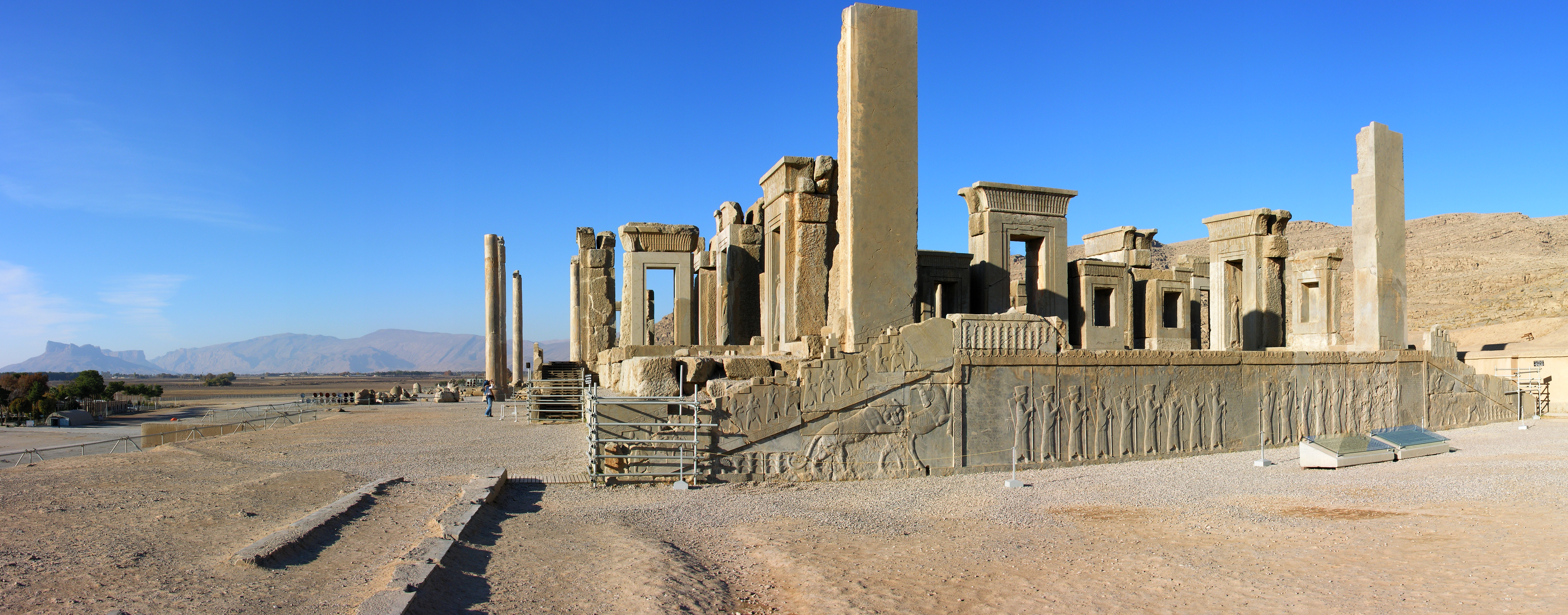 Iran, Panoramic views of Persepolis